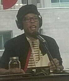 Nabi-Alexandre Chartier photographed in Montréal , Québec, Canada at the Salon du livre de Montréal 2018.